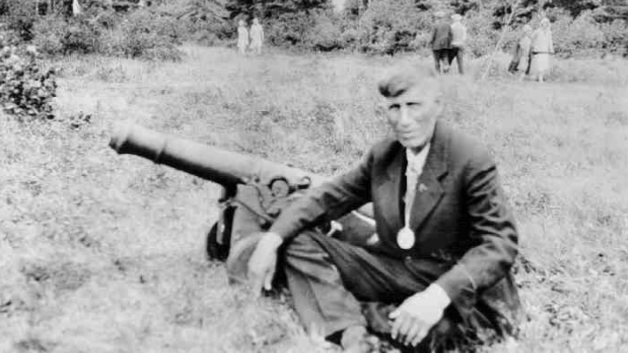 Portrait of Gabriel Sylliboy, Mi'kmaq Chief, 1930